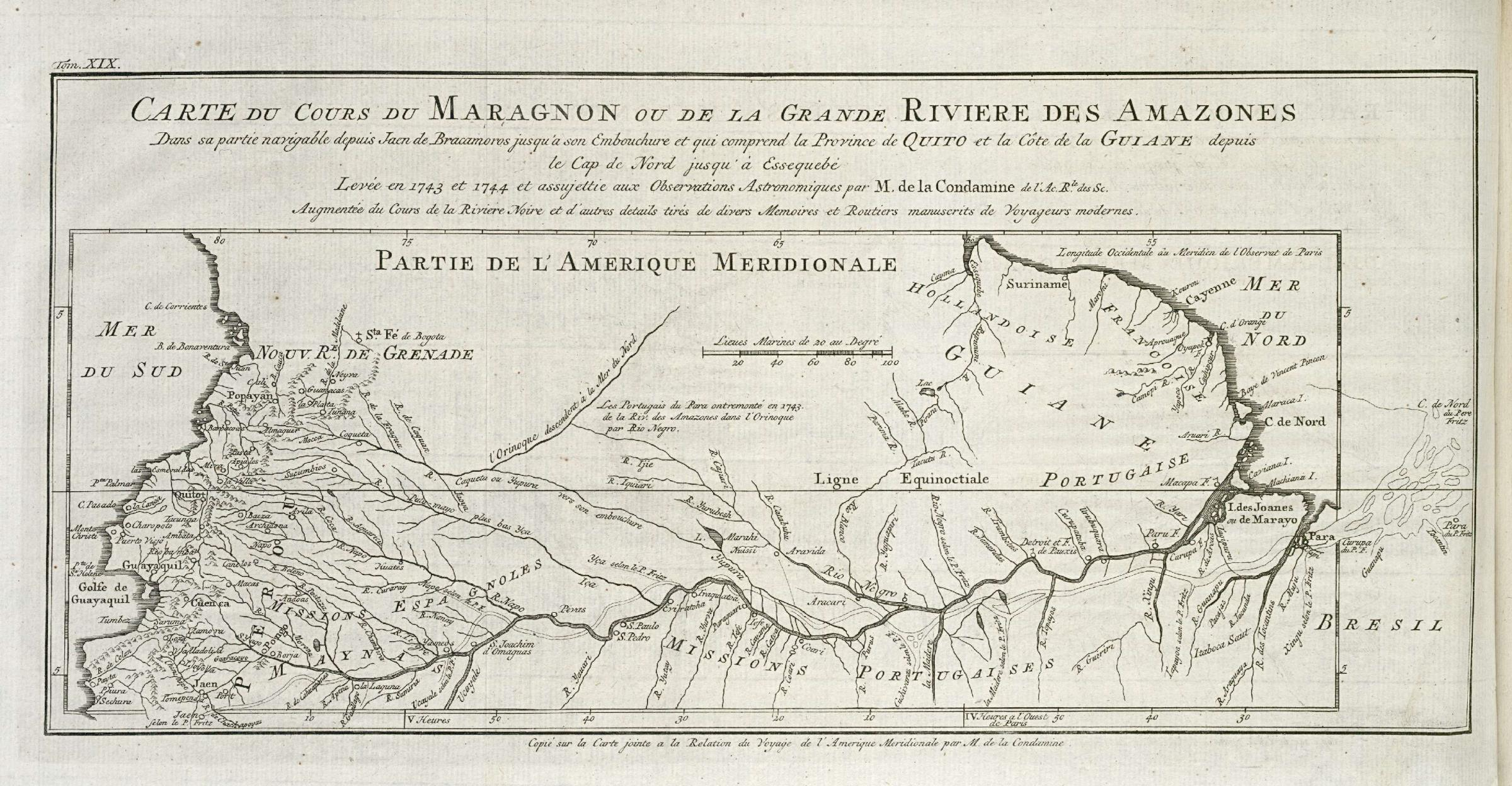 Map of the course of the Amazon. Carte du Cours du Maragnon ou de la Grande Riviere des Amazones / Dans sa partie navigable depuis Jaen de Bracamoros jusqu'a son Embouchure te qui comprend la Province de Quito et la Côte de la Guiane depuis le Cap de Nord jusqu'à Essequebé.